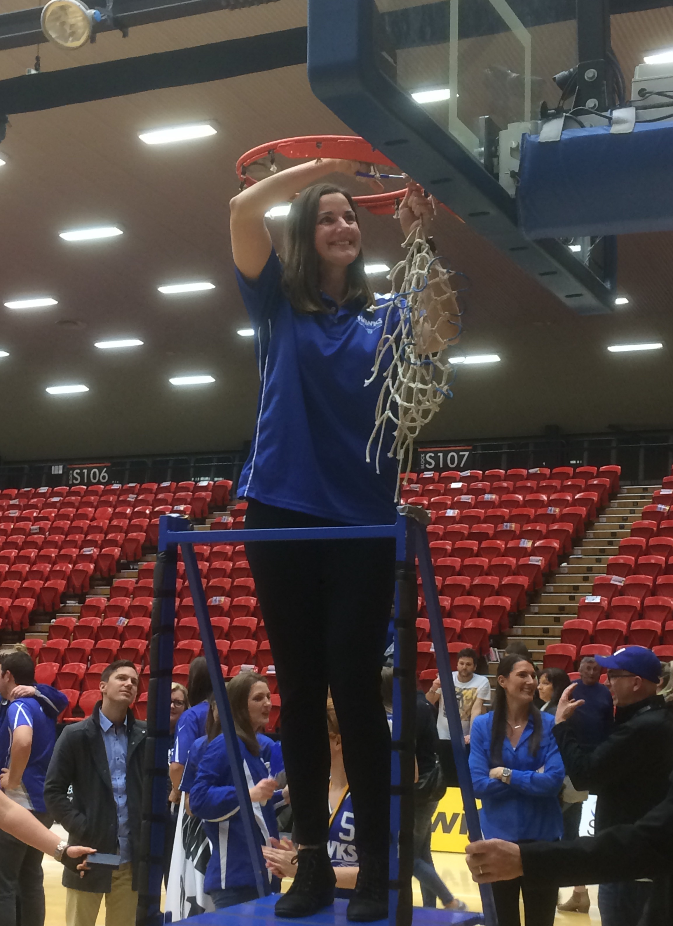 Coach Deanna Smith, following the Perry Lakes Hawks championship win